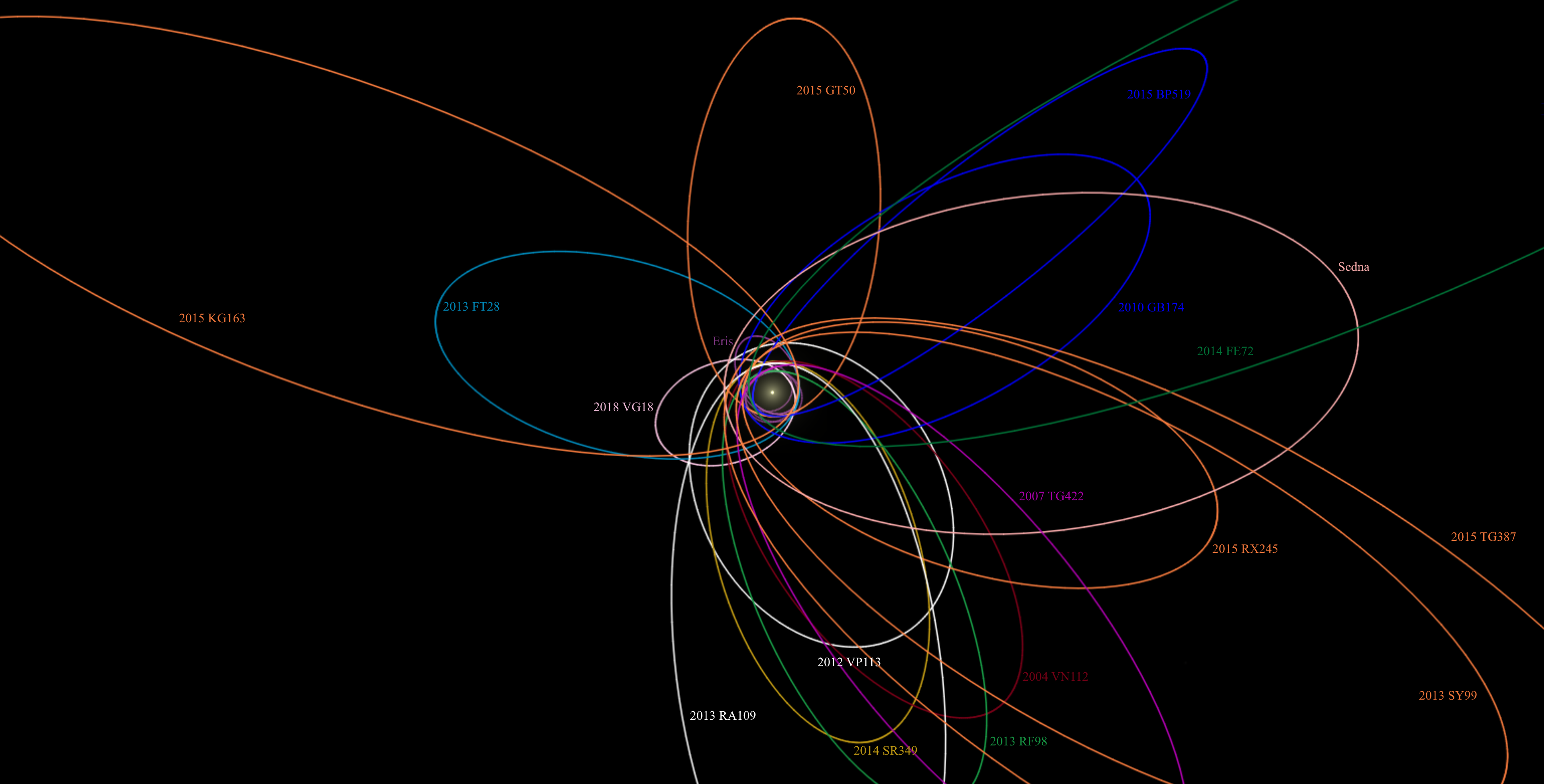 Orbit diagram of 16 extreme-trans Neptunian objects, with scattered disc objects Eris and 2018 VG18 shown for comparison. Image rendered in Celestia. Colors based off Tomruen's 16 eTNOs diagram (File:Extreme transneptunian object orbits.png)